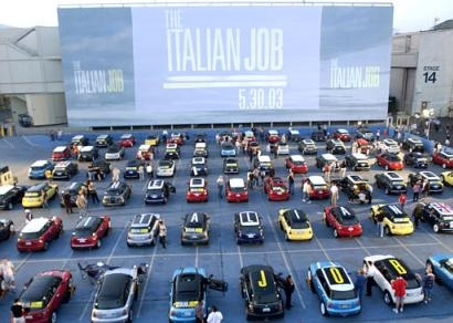 A photo taken at the premier of "The Italian Job (2003)".